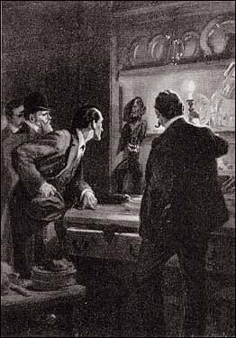 Arthur Conan Doyle, The Adventure of Wisteria Lodge (1908), Illustration by Arthur Twidle, in The Strand Magazine